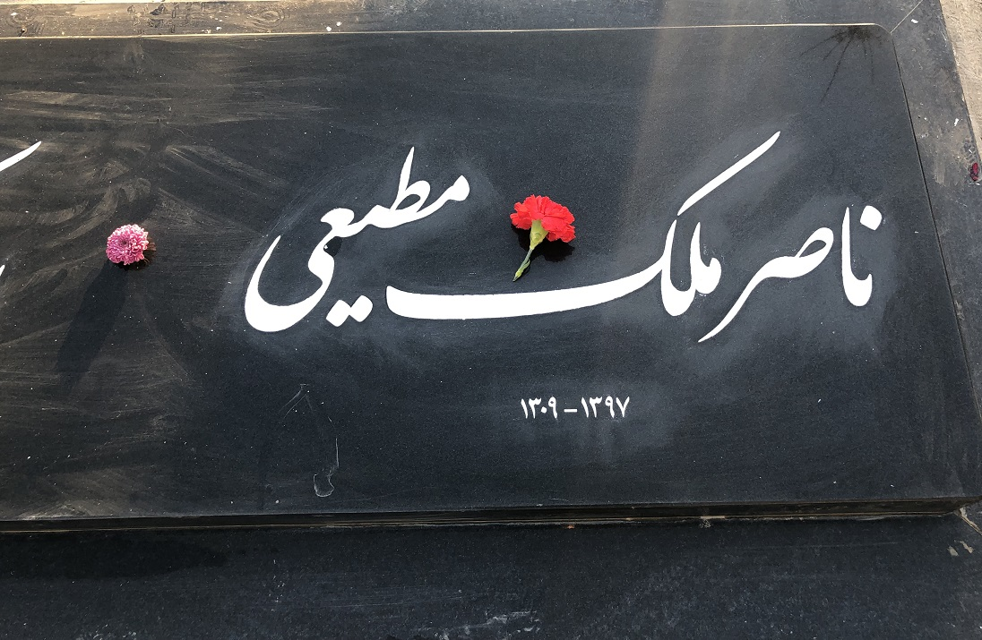 Beheshte Zahra Cemetery